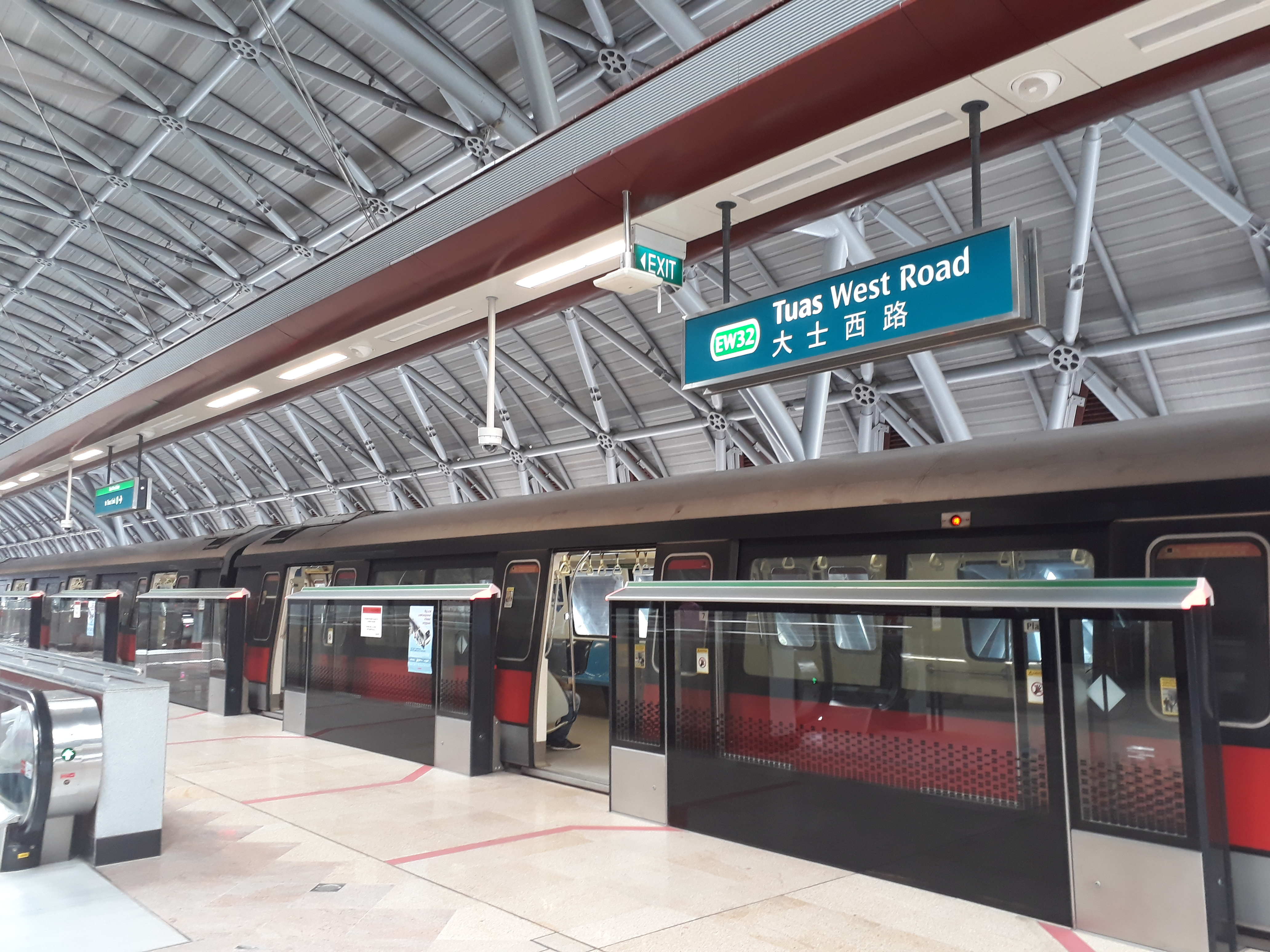 Platform B of Tuas West Road